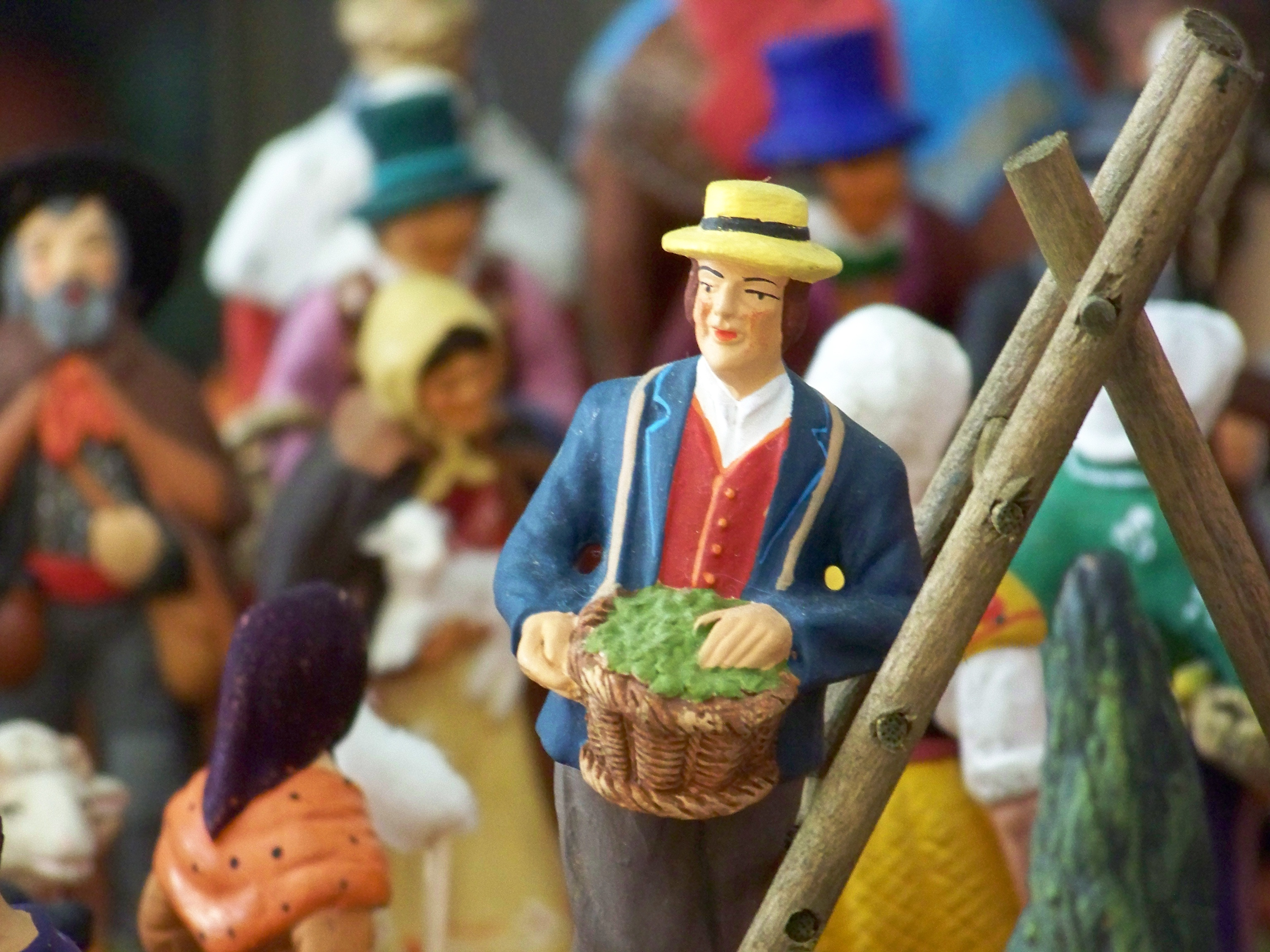 Crib figurine of a market gardener